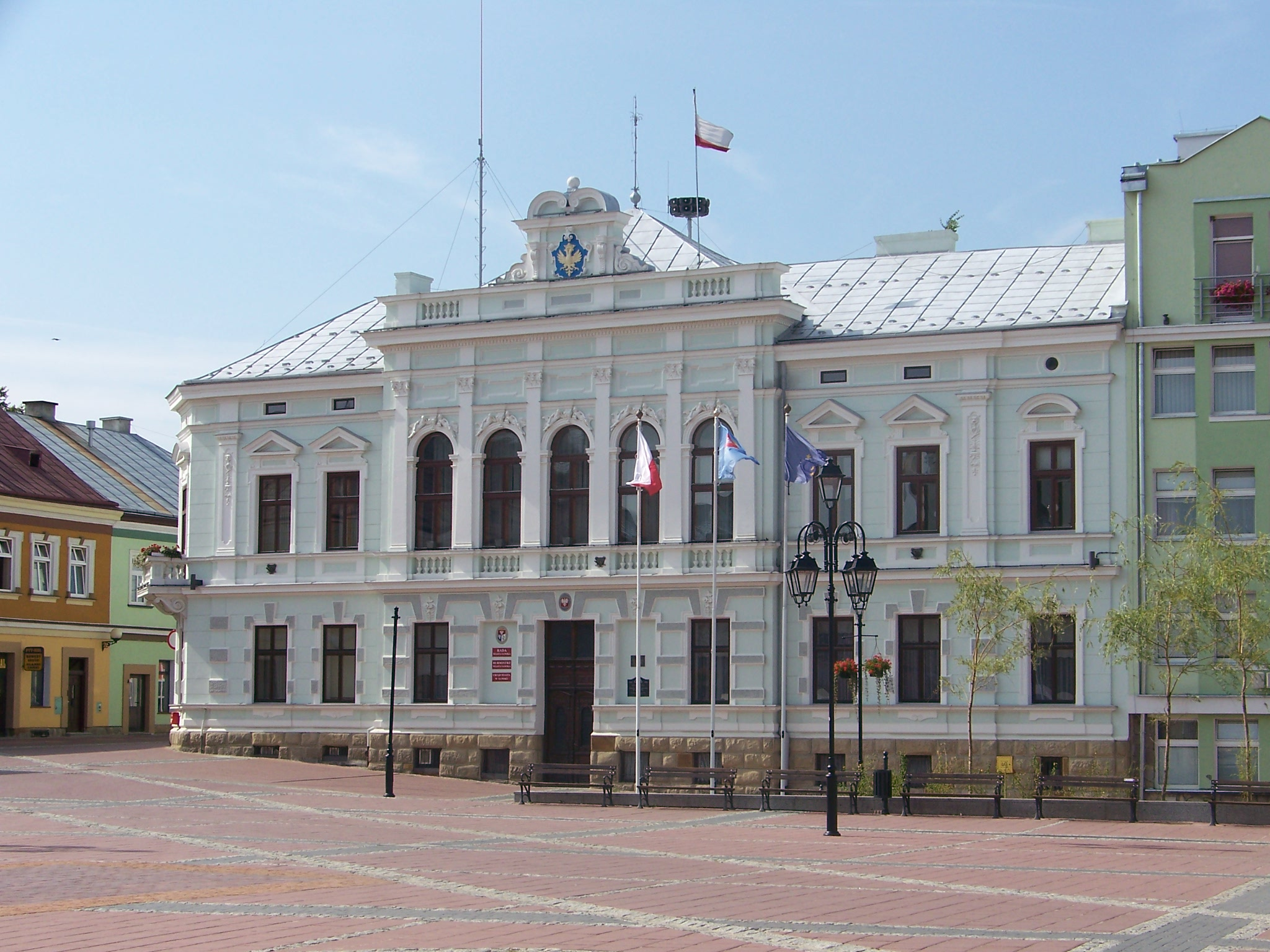 New town hall in Sanok, Poland